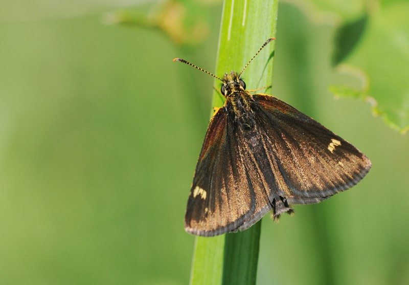 Wing upperside view of a Large Checkered Skipper butterfly. Kirklareli, Turkey. June 9th, 2013. 550 m.